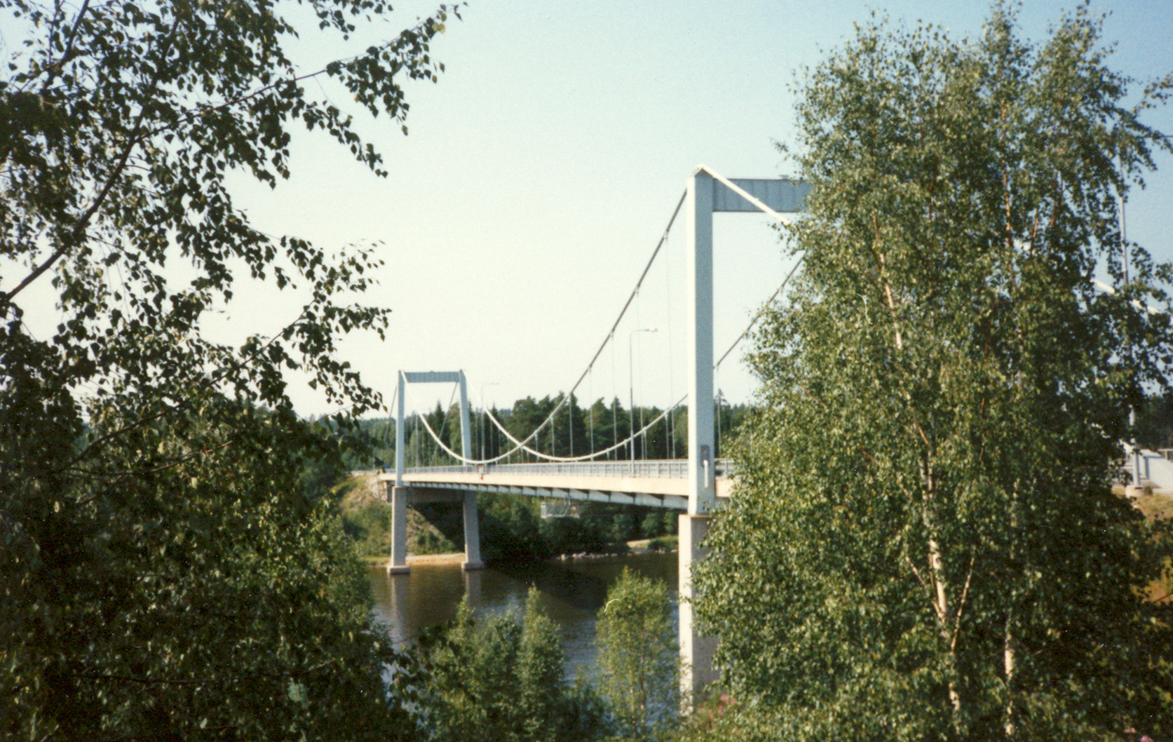 Kirkonvarkaus Suspension Bridge on highway 62 in Mikkeli, Finland in 1989